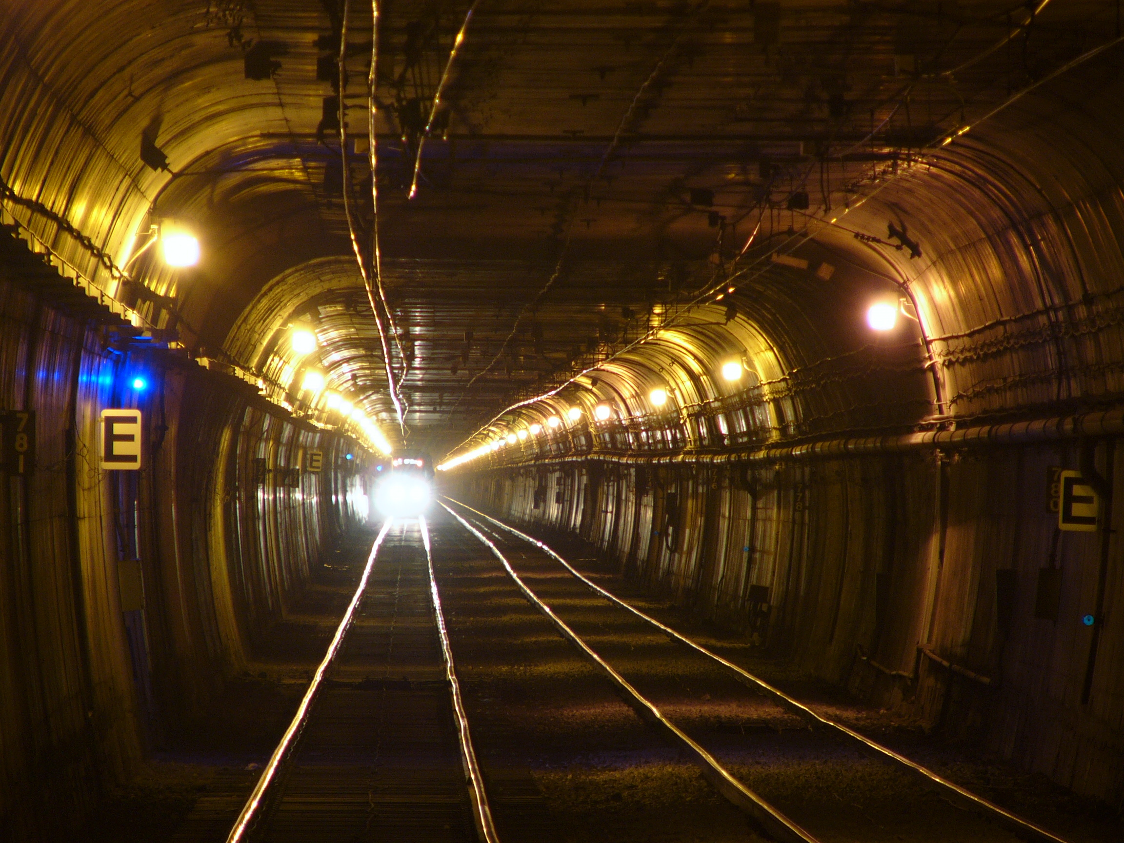 Is that the light at the end of the tunnel?